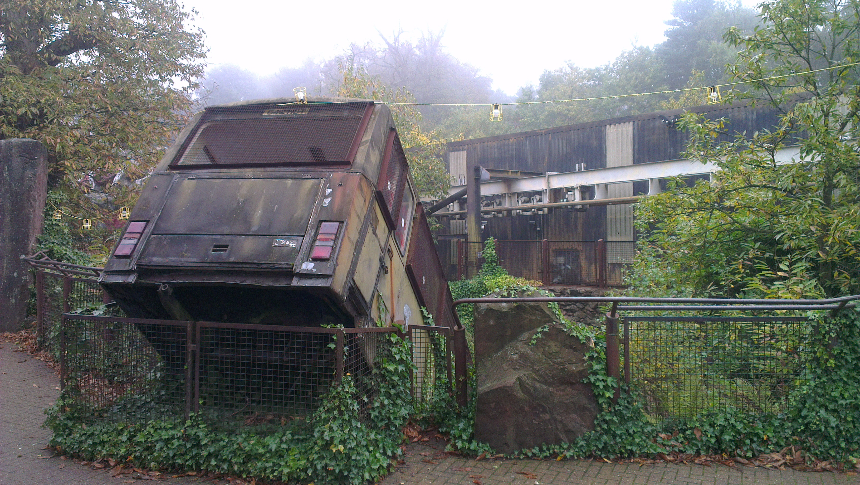 Alton Towers Bus! C42HDT SYT